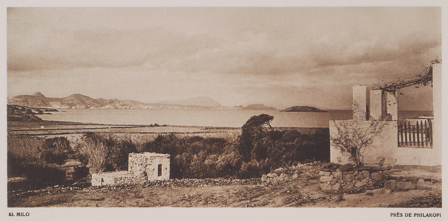 Frederic Daniel Boissonnas Baud-Bovy. Des Cyclades en Crète au gré du vent, Geneva, Boissonnas & Co, 1919.